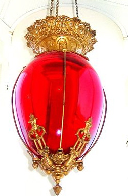 Hanging Show Globe at the Biological Sciences/Pharmacy Library of Ohio State University.